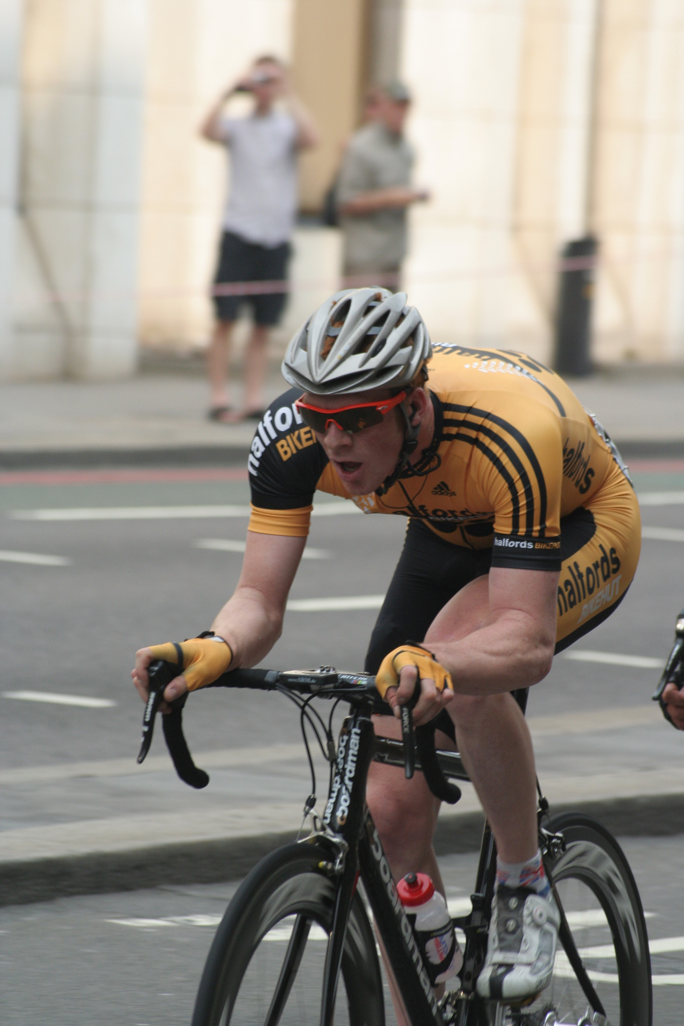 Ed Clancy riding in the 2009 Tour of Britain